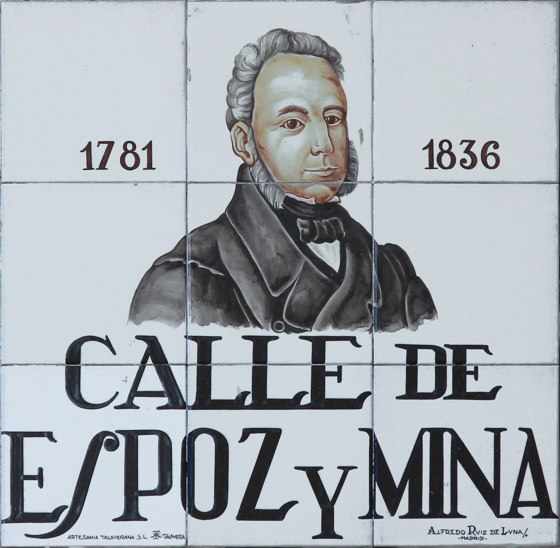 Sign of Calle de Espoz y Mina (street) in Madrid (Spain).